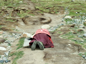 A Tibetan woman performing full prostrations while circumambulating (Kora) Mt. Kailash